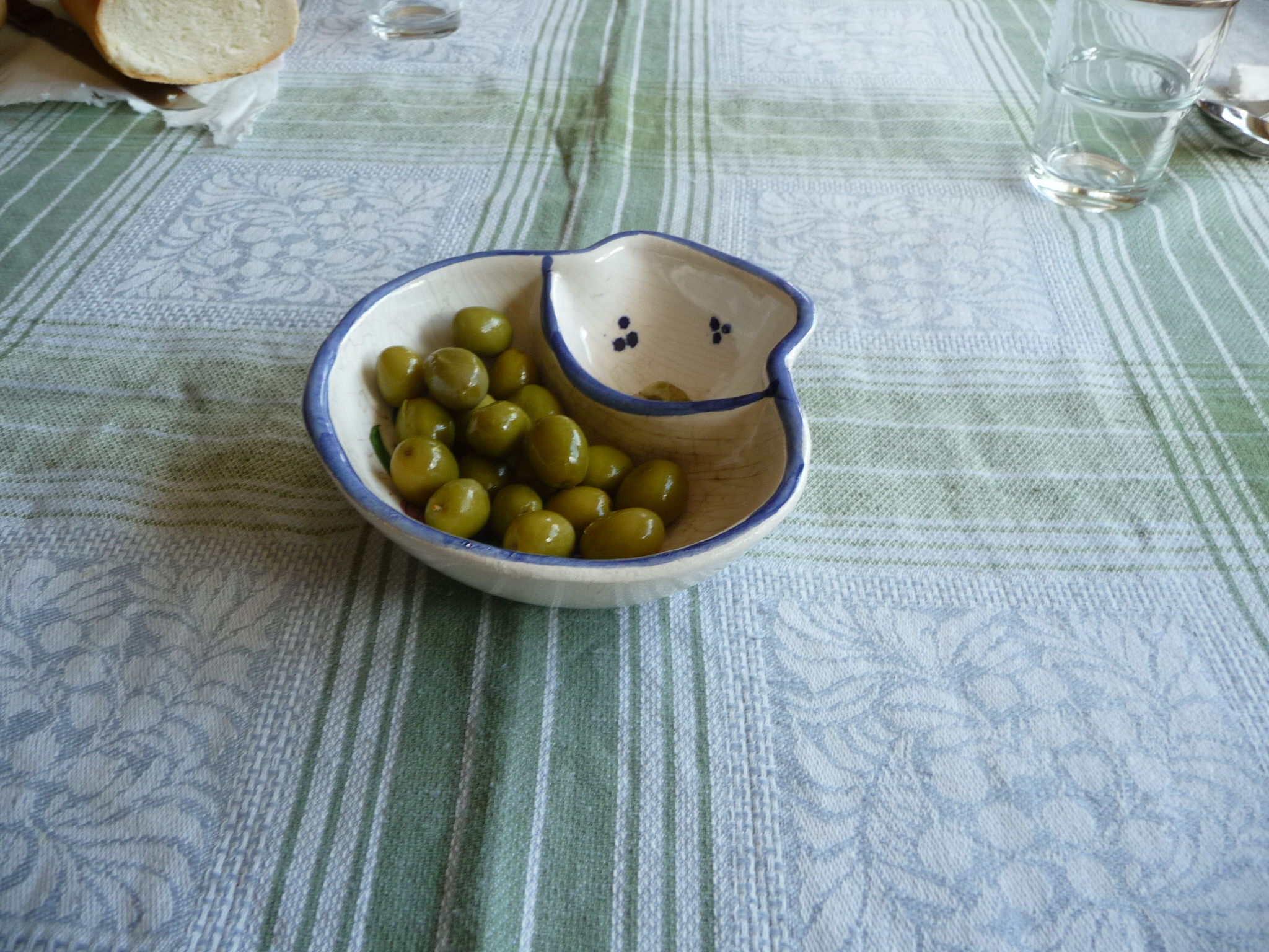 Marinated verdial olives